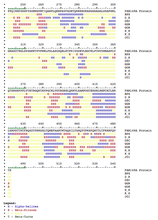 FAM149A Secondary Structure from PELE via Biology WorkBench 2.